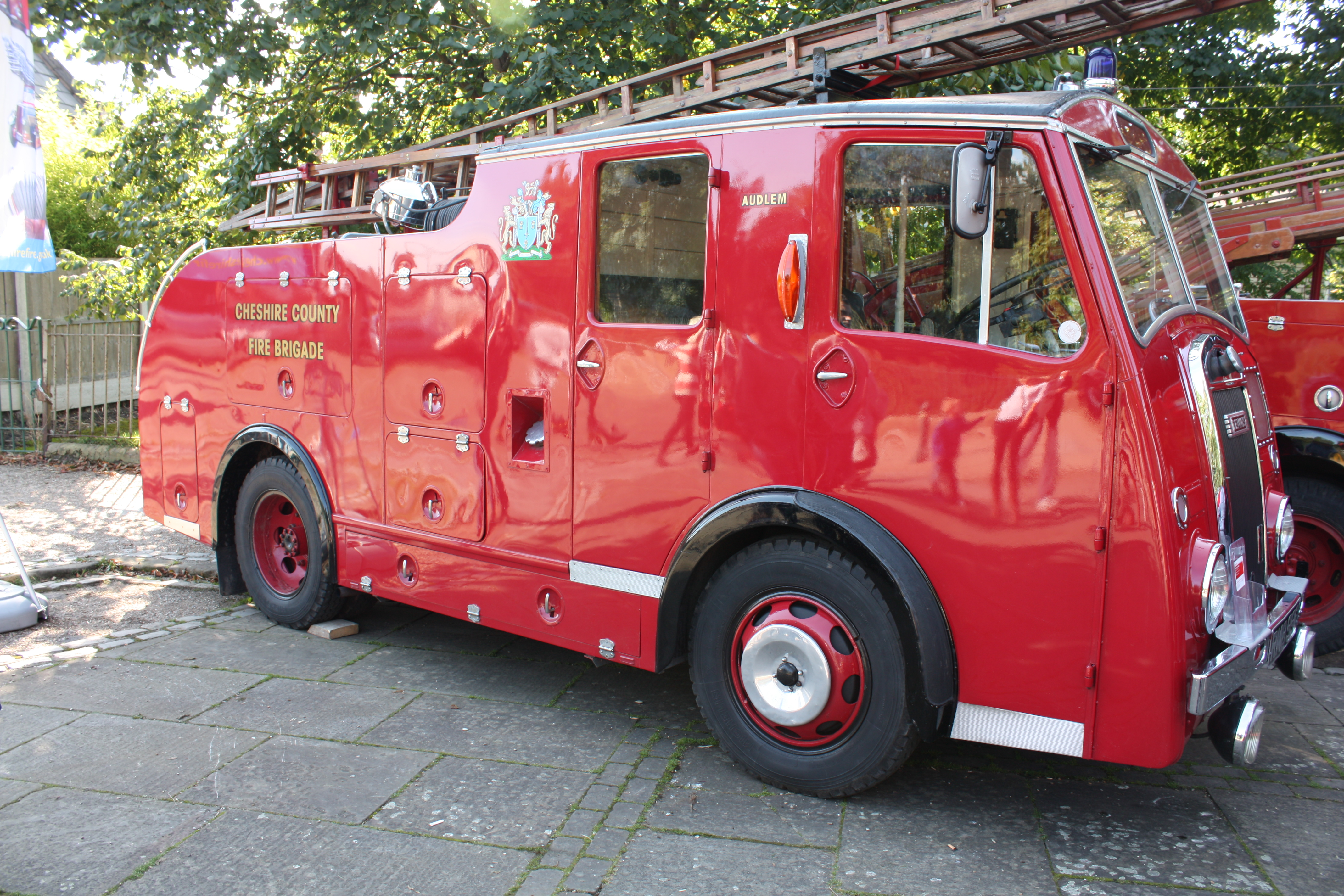 Cheshire County Fire Brigade Audlem engine, Dennis Fire Water Tender F8 from 1953, registration RMB 996